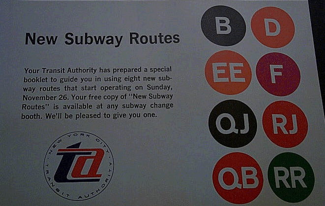 This poster was put in stations by the New York City Transit Authority in advance of the drastic service changes resulting from the opening of the Chrystie Street Connection on November 26, 1967.